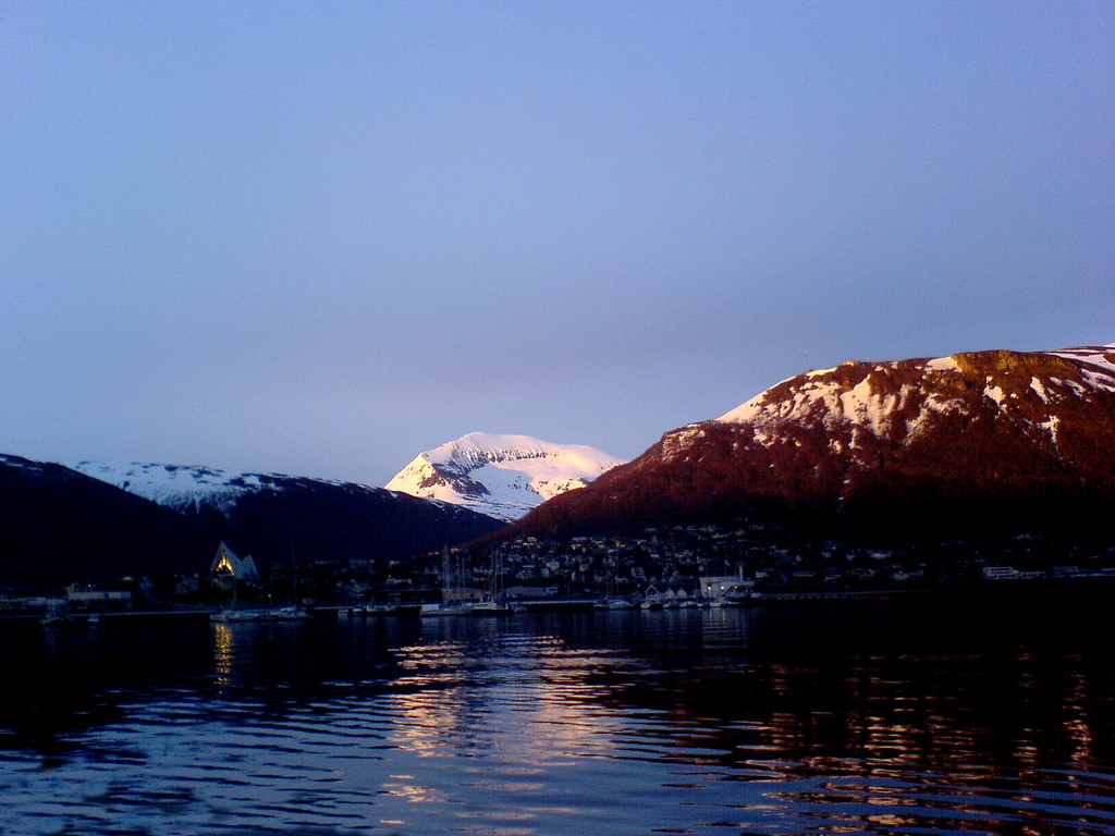 Tromsdalstinden in Tromsø (Norway) seen from the harbour